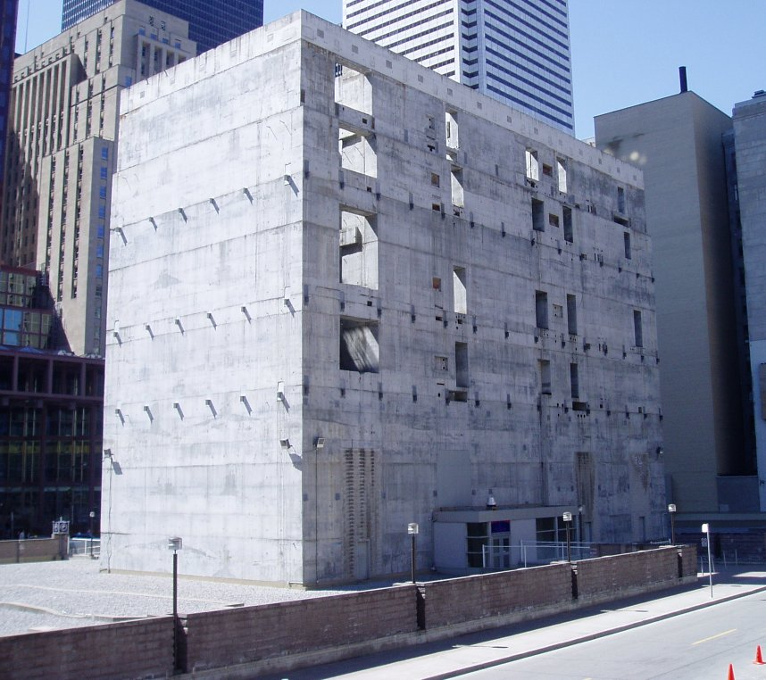 A view of Toronto's "stump" in April 2005. Construction on Toronto's Bay Adelaide Centre first commenced in 1990, but the later economic recession resulted in the halt of construction after only the underground parking and a six storey service shaft were completed. The concrete "stump" remained on the site until 2006, a symbol of the negative effect the early 1990s recession had on office vacancies in Toronto's downtown core. The stump was demolished by December 2006 so as to permit the construction of a differently-designed Bay Adelaide Centre.